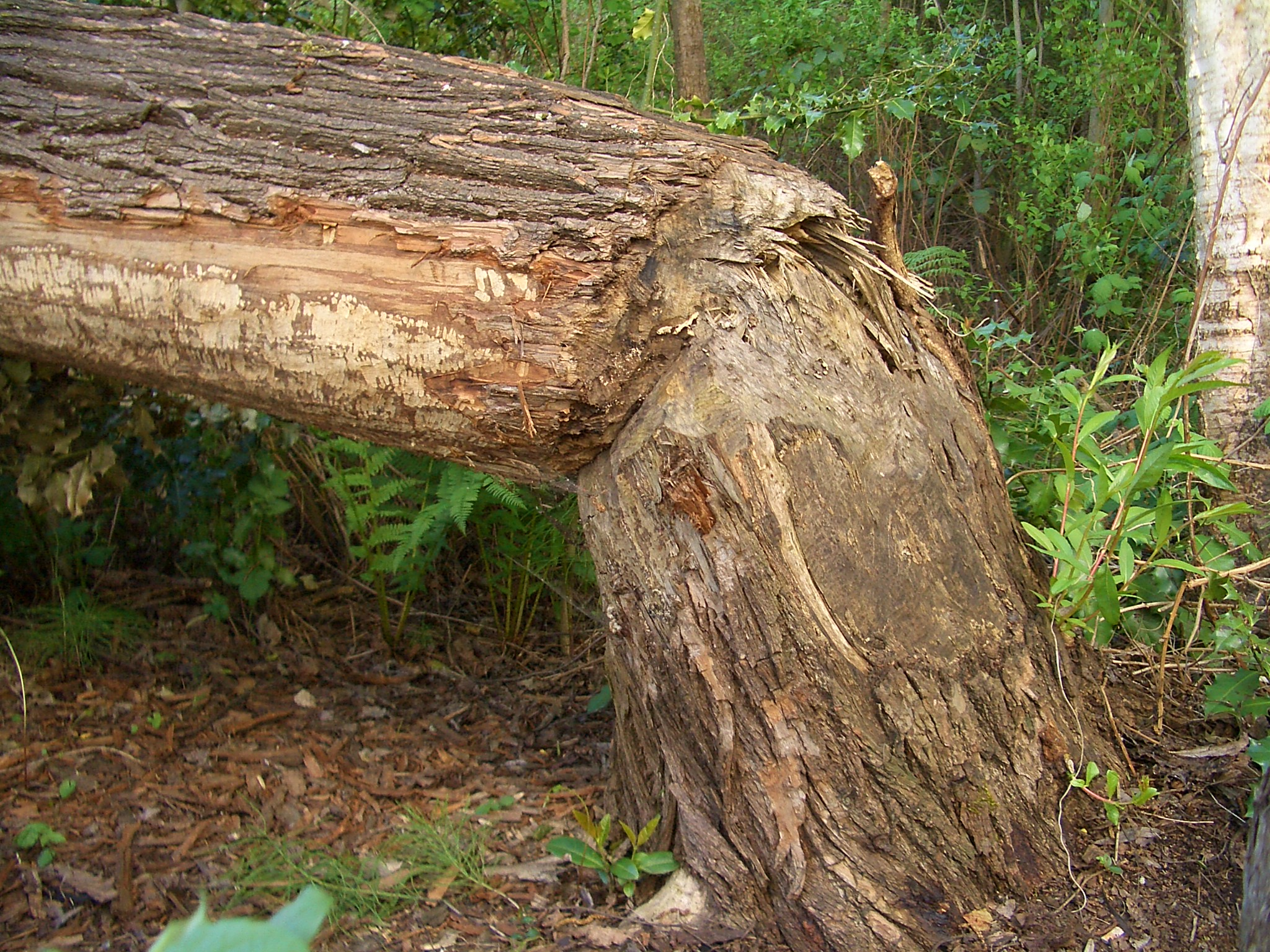 Another big tree cut by beavers. (Marsh Island, south of Union Bay)